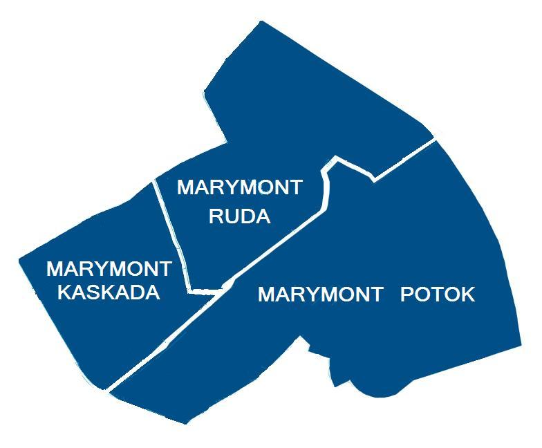 marymont - part of north warsaw